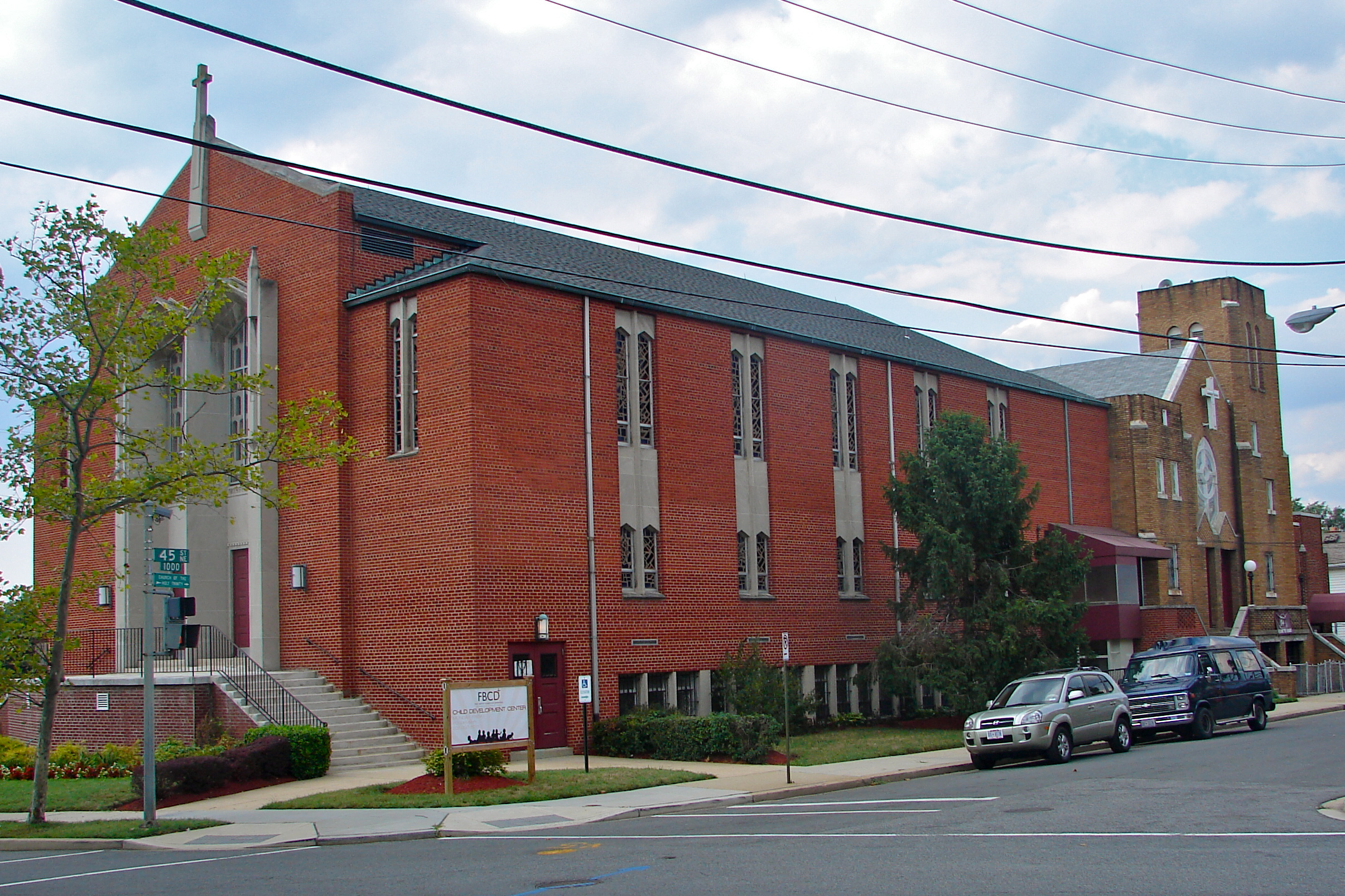 First Baptist Church of Deanwood in the Deanwood neighborhood of Washington, D.C. The new reddish church in front was completed in 1961 and is the main church building now. The old yellowish church in back was completed in 1938 and has been on the NRHP since July 24, 2008. At 1008 45th St. NE, in the Deanwood neighborhood of Washington, D.C. The older building is the one on the NRHP.